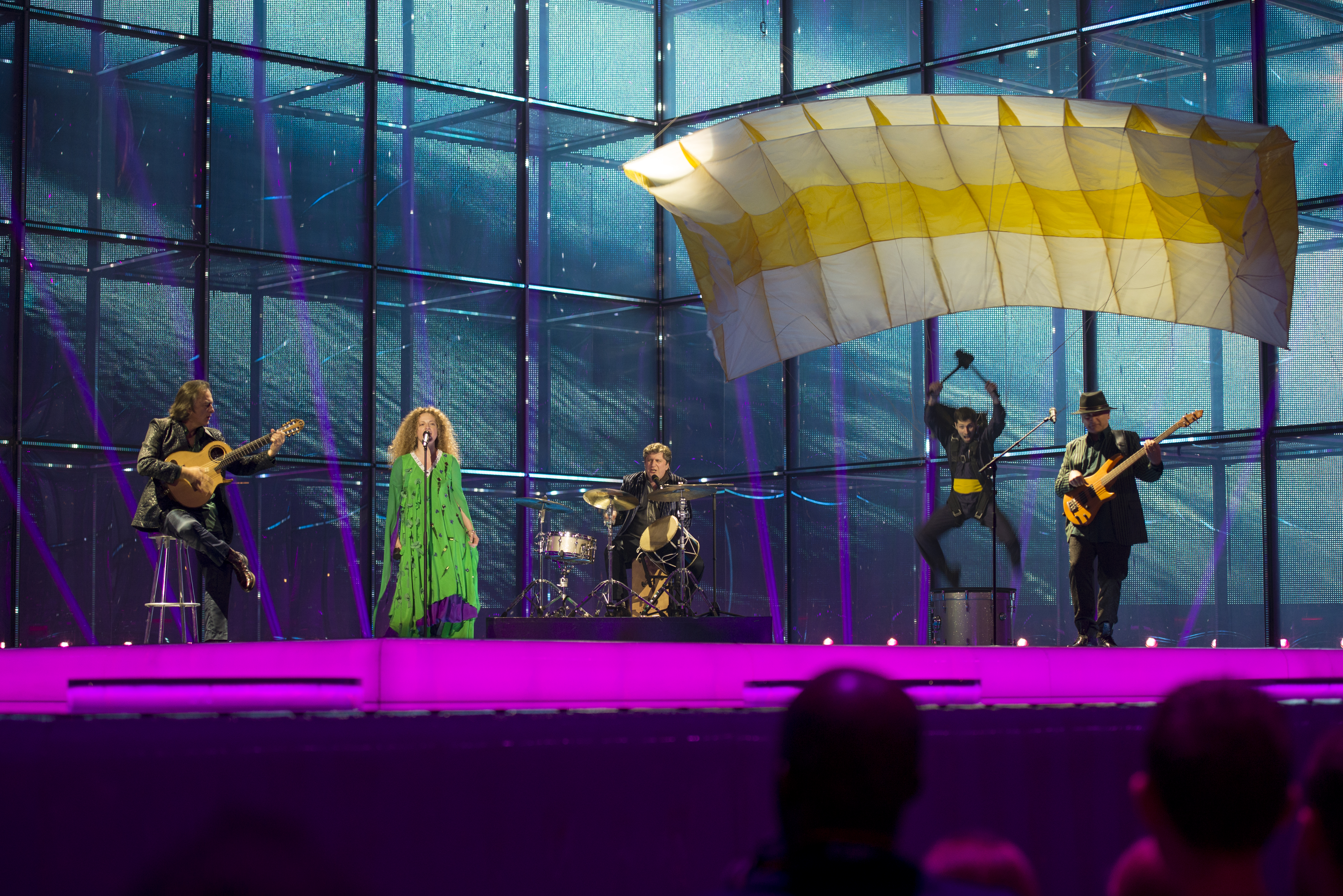 The Shin and Mariko Ebralidze representing Georgia with the song "Three Minutes to Earth" during the first dress rehearsal of the second semi final of the Eurovision Song Contest 2014 Copenhagen. (Help translate this text)